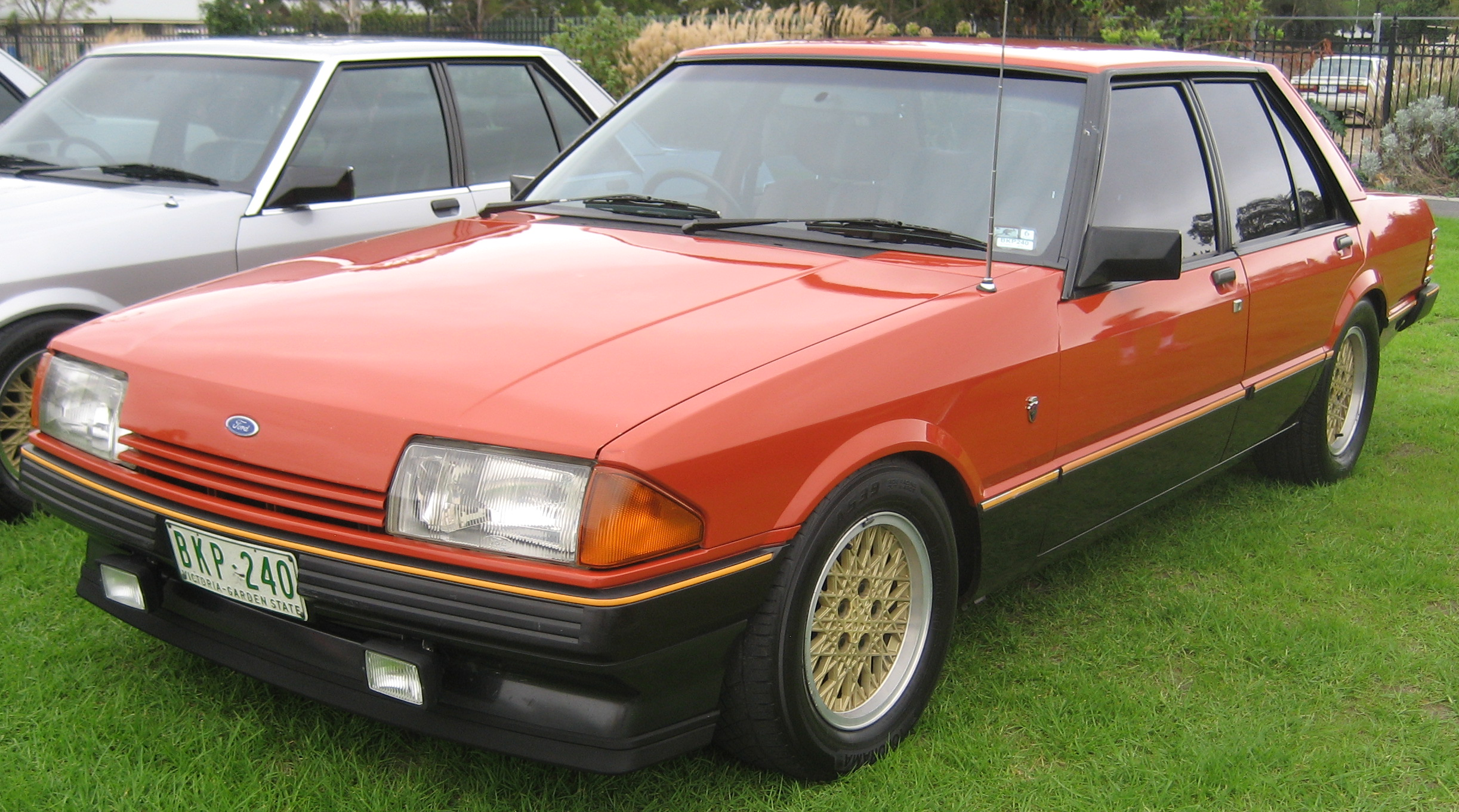 Ford XE Fairmont Built from March 1982-October 1984 Engines; 3.3 or 4.1 6s & 4.9 or 5.8 V8s V8 production ended in November 82 Sedan or Wagon. Also Fairmont Ghia & Fairmont Ghia with European Sports Pack (ESP) option. The example pictured is as Fairmont Ghia ESP.